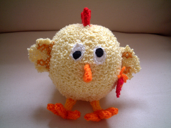 Knitted chick, hand made in Portugal.